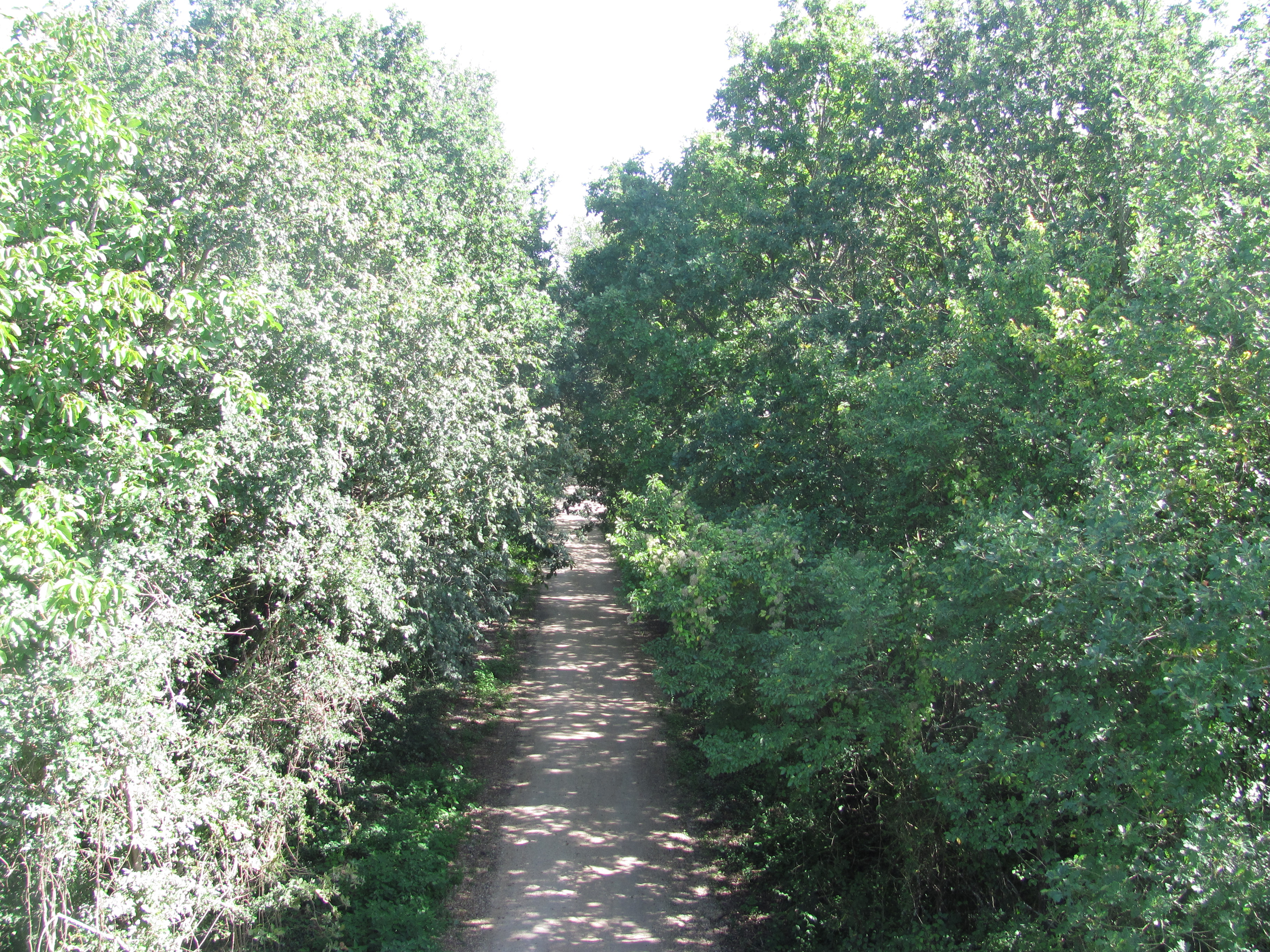 The path of roses Solers towards Yèbles.